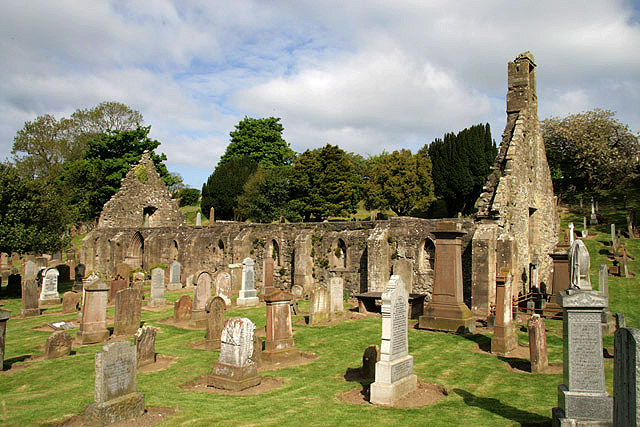 Kirkoswald Old Church This church dates back to 1244 and according to legend is the site where St Oswald fought a great battle in 634 A.D. and built a chapel in celebration of his victory. The churchyard contains some very interesting gravestones, including a memorial to Robert Burns' mother's people, and gravestones for the real people who inspired the main characters in Robert Burns' poem 'Tam O' Shanter'.